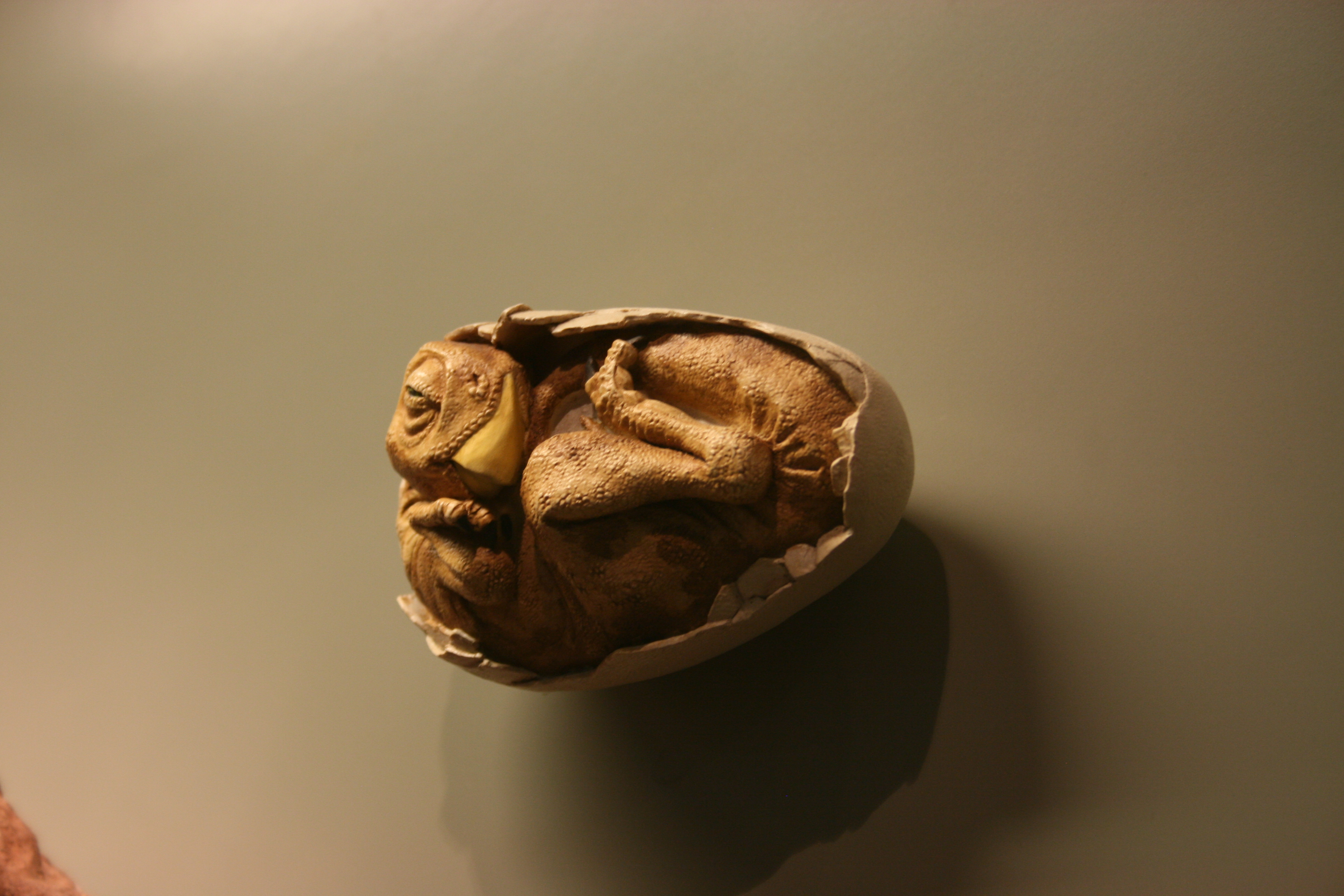 Life restoration of an embryo of the dinosaur genus Oviraptor